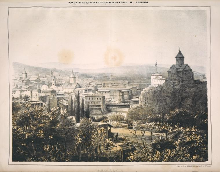 Tbilisi.